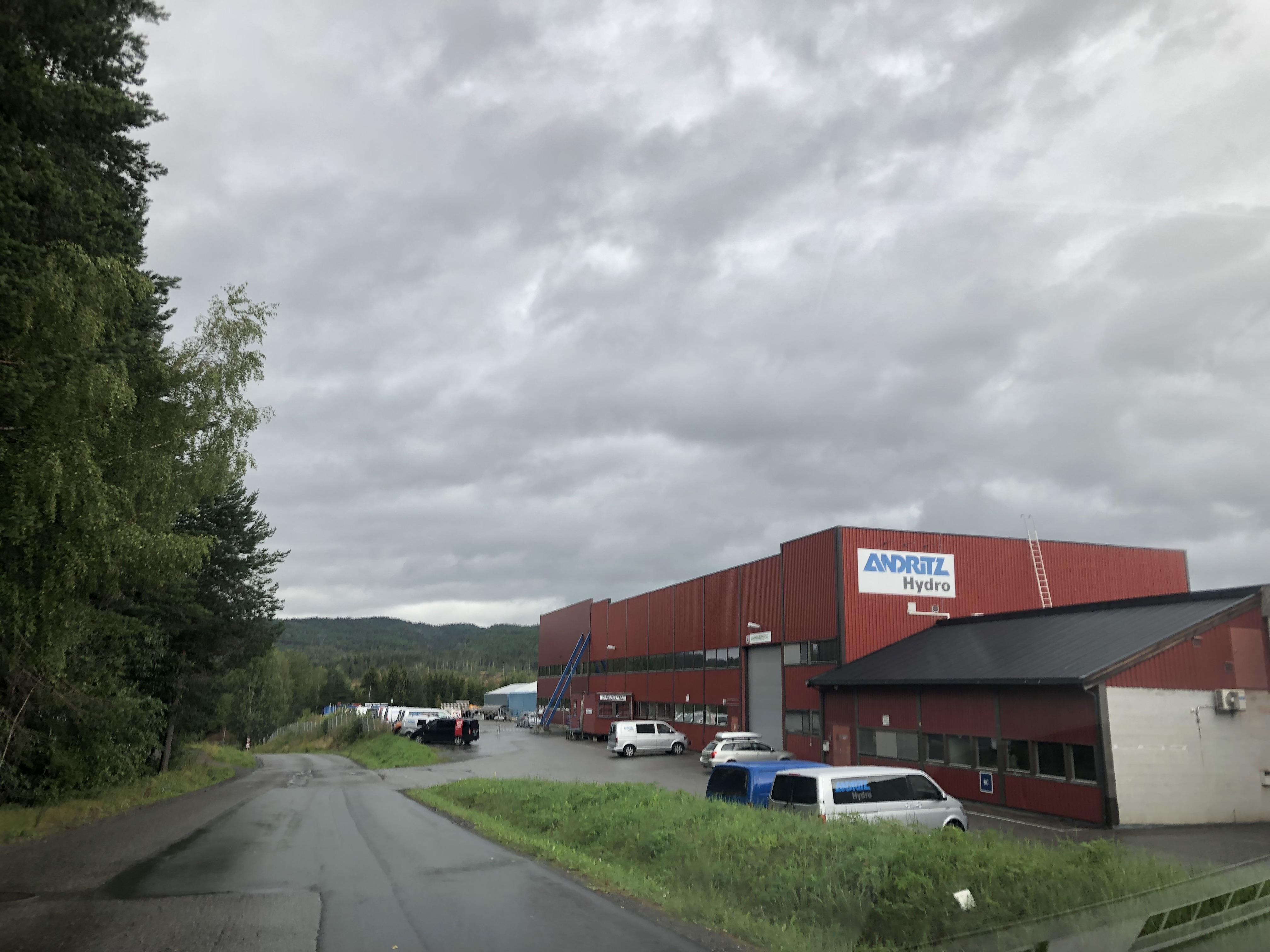 The road Musmyrveien, Jevnaker, Norway.